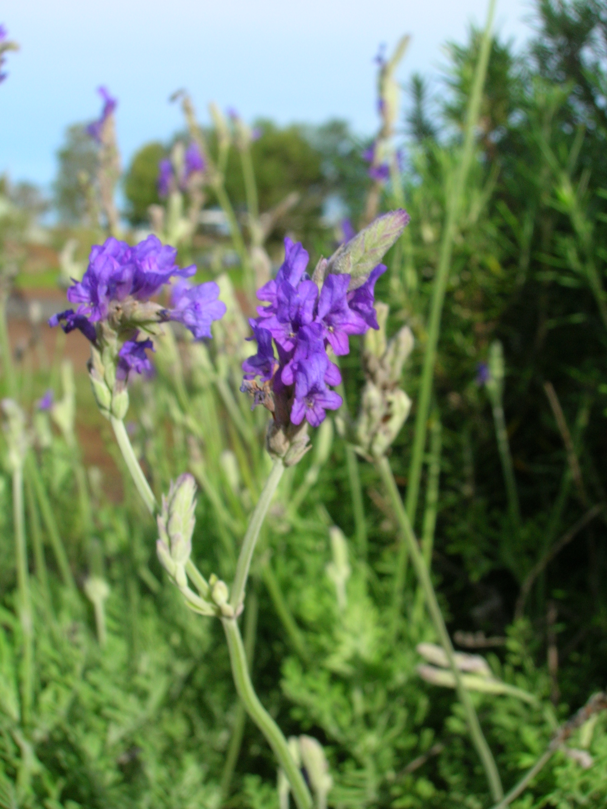 Lavandula multifida (plant). Location: Maui, Ulupalakua